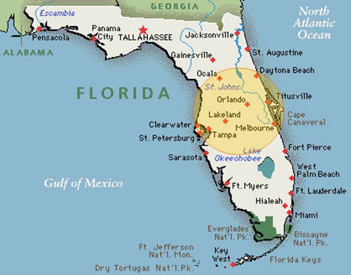 A map of Florida, with the area considered Central Florida highlighted.